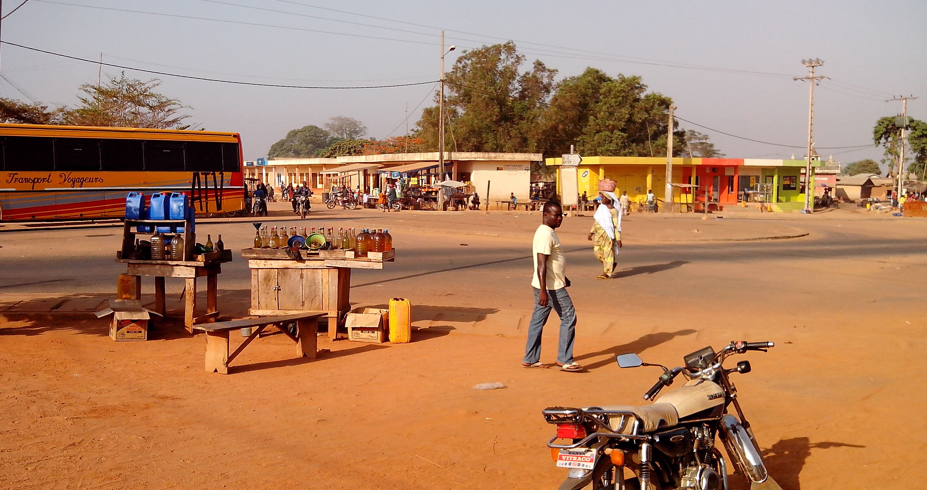 the town center of Bassila, looking accross the roundabout towards the new market-units; note the electrical infrastructure and the paved main road